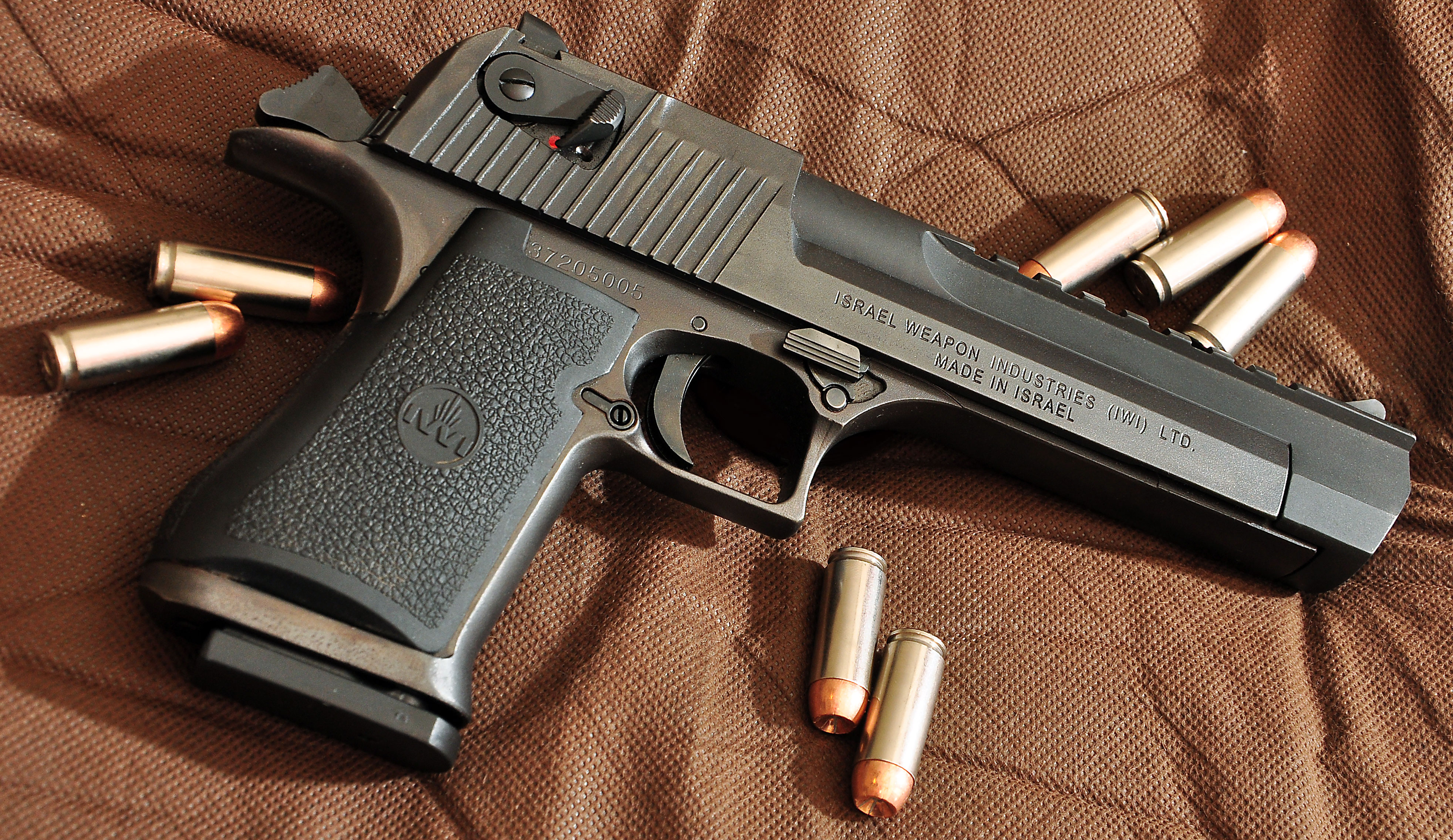 A IWI Desert Eagle with an aftermarket magazine surrounded by Magnum Research 50AE JHP bullets.